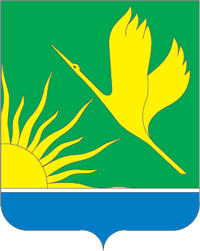 Shatursky district (Moscow oblast), coat of arms (2003)